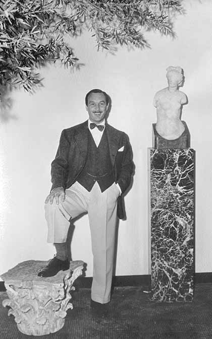 Wright S. Ludington at the SBMA Grand Opening, June 5, 1941.